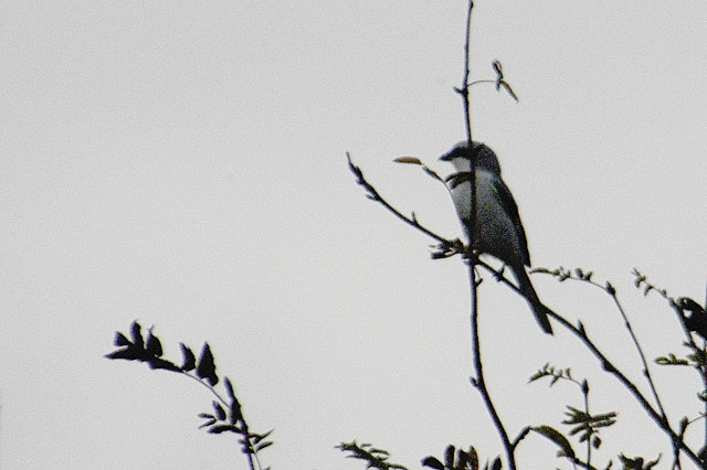 Lanius excubitor from Commanster, Belgian High Ardennes .